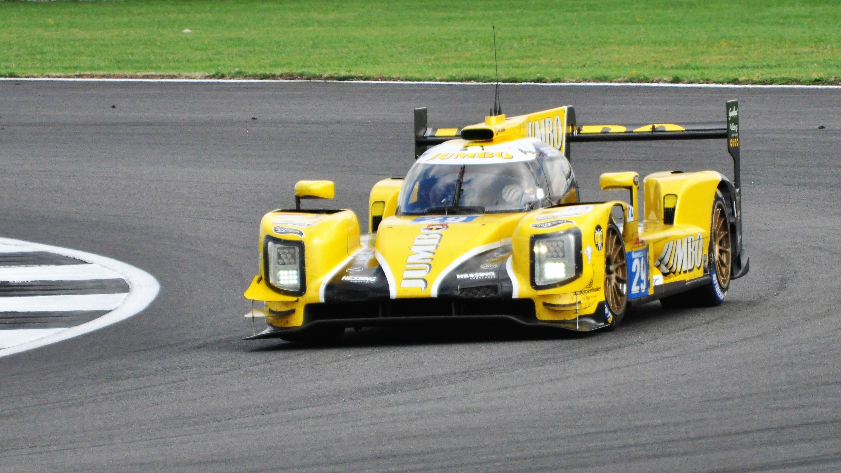 Dutch driver Frits van Eerd guides the Racing Team Nederland-entered Dallara P217 around Luffield corner during the 2018 6 Hours of Silverstone race. Van Eerd and his co-drivers, compatriots Nyck de Vries and Giedo van der Garde, finished fifth in the LMP2 class.